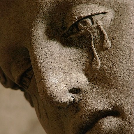 Cropped version of File:Sépulcre Arc-en-Barrois 111008 12.jpg